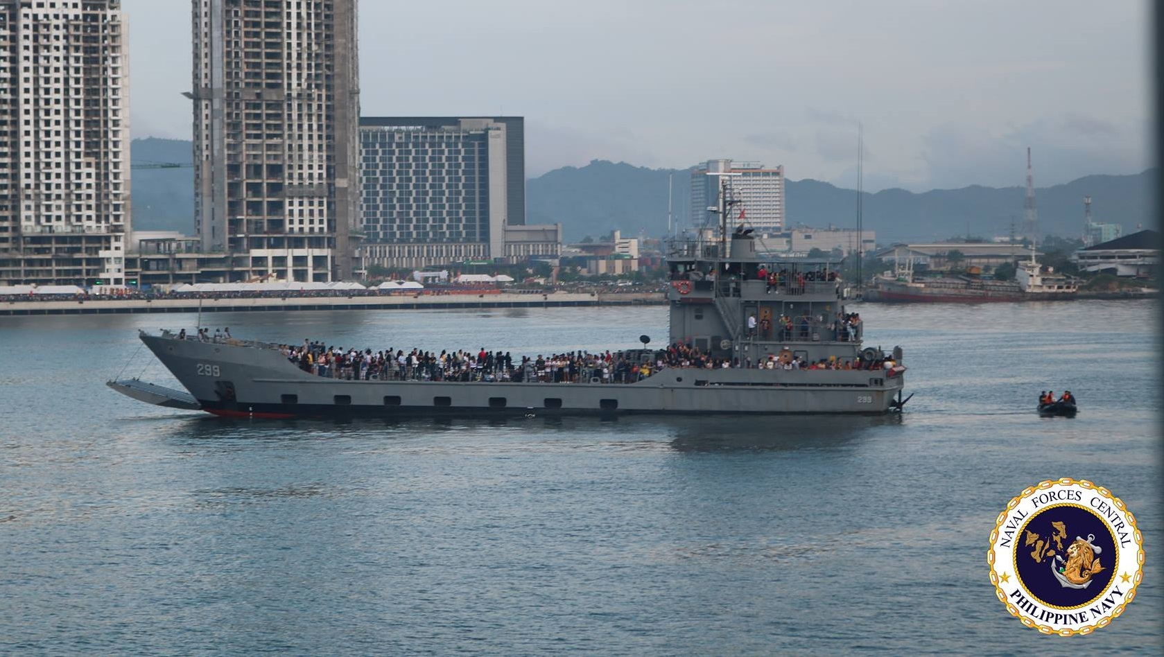 The Philippine Navy landing craft heavy BRP Batak (AT-299) as part of the Sinulog 2019 fluvial festival in Cebu.